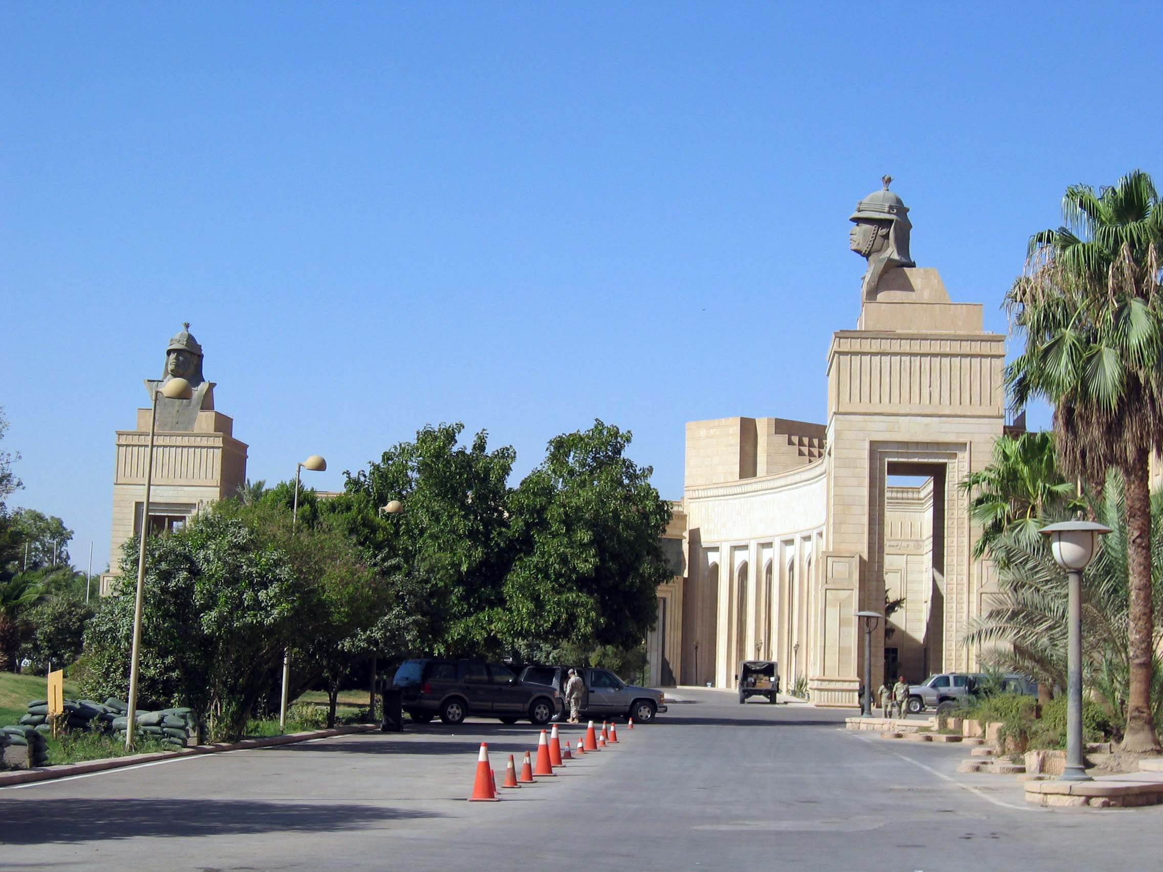 The Iraqi Republican Palace in August, 2003, prior to removal of the "Saddam the Warrior" bronze heads from the rooftop. The bronze busts were later pulled down, and sold to a South Korean company as scrap metal.